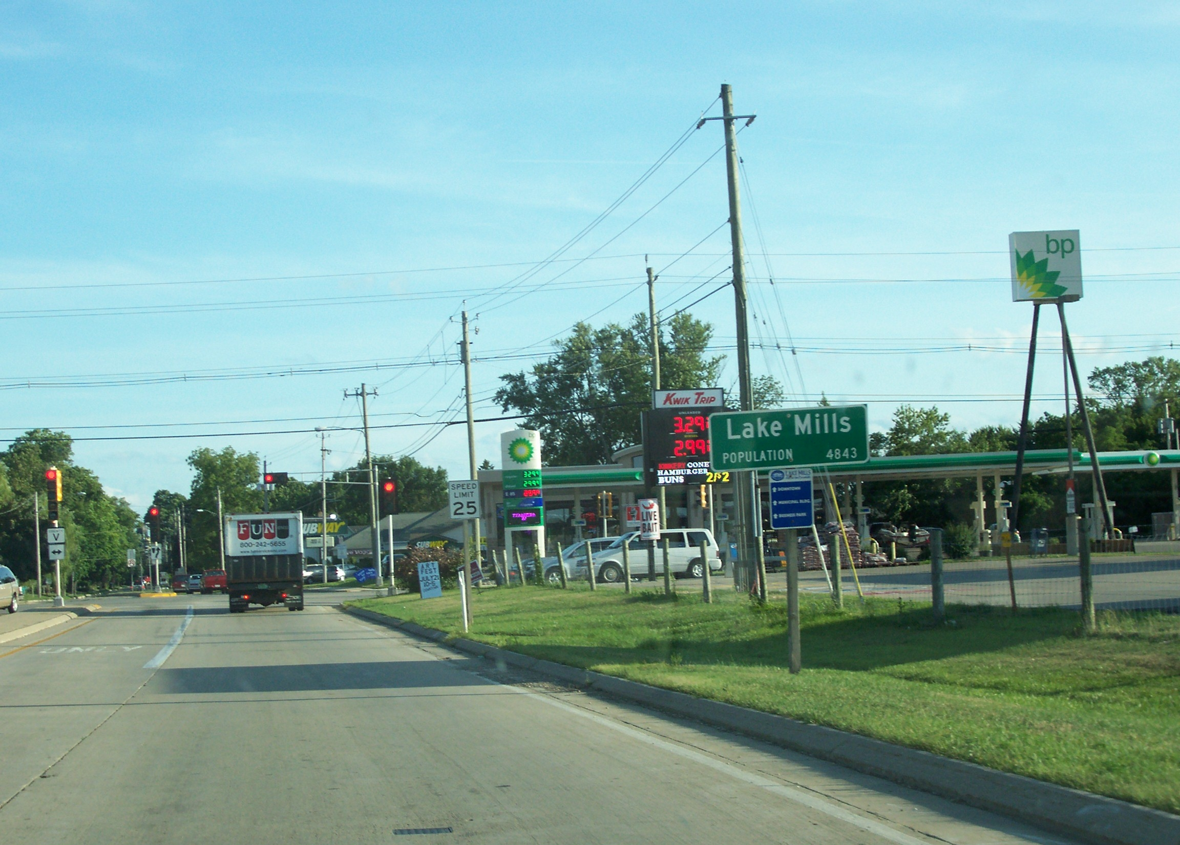 Looking south at the DOT sign for LakeMills, Wisconsin, USA while traveling on Wisconsin Highway 89 just south of 89's intersection with Interstate 94.